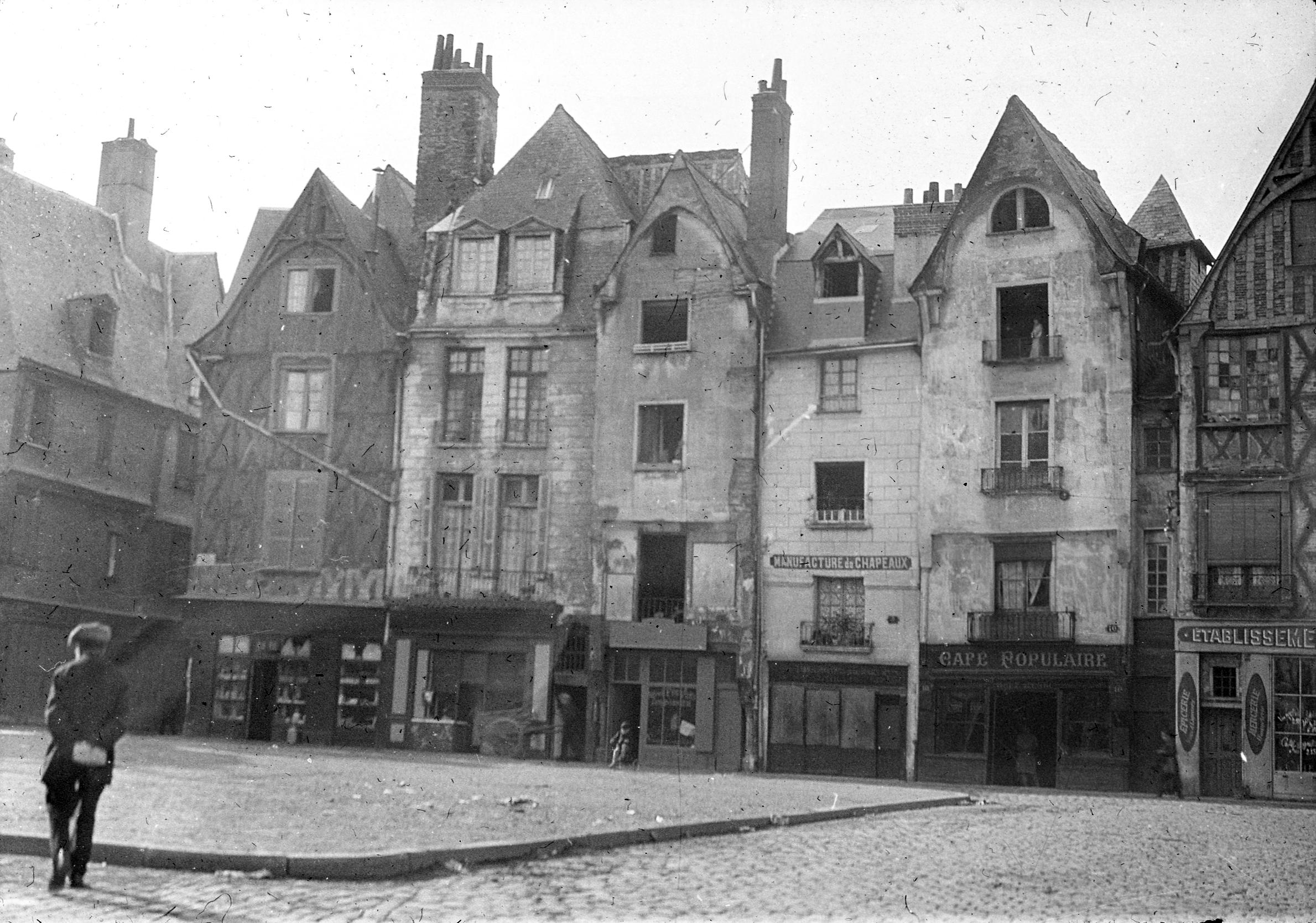 Original Collection: Arthur Peck Photograph Collection (P99) Item Number: P099_A_143 You can find this image by searching for the item number by clicking here. Want more? You can find more digital resources online. We're happy for you to share this digital image within the spirit of The Commons; however, certain restrictions on high quality reproductions of the original physical version may apply. To read more about what “no known restrictions” means, please visit the Special Collections & Archives website, or contact staff at the OSU Special Collections & Archives Research Center for details.